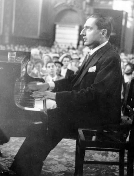 Romanian pianist Dinu Lipatti (1917-1950) giving his last concert at the Festival de Besançon, France, in September 1950.